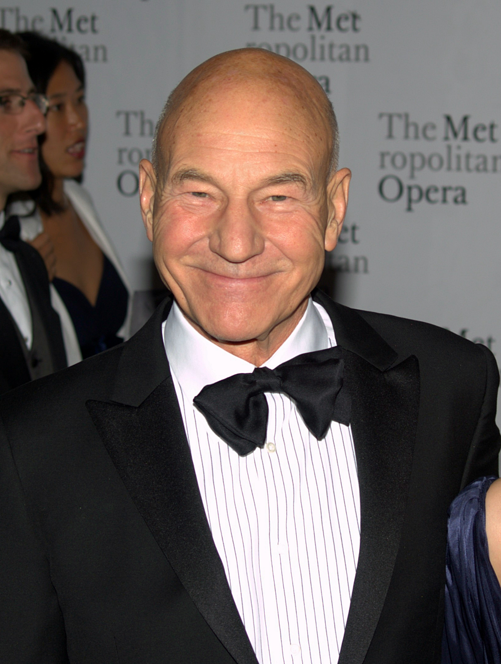 Patrick Stewart at Metropolitan Opera's 2010-11 Season Opening Night - "Das Rheingold"